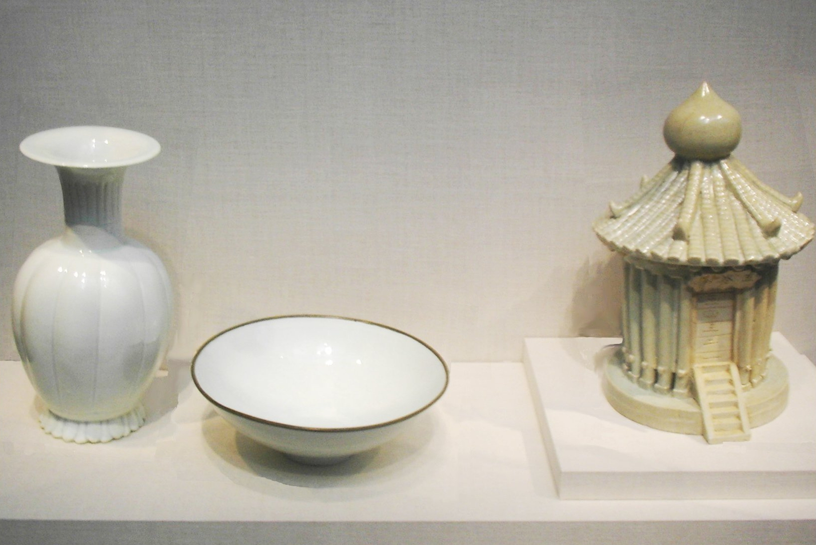 Song Dynasty (960-1279 AD) Chinese qingbai porcelain items: Left item: A Northern Song qingbai-ware vase with a transparent blue-toned glaze, from Jingdezhen, made in the 11th century. Center item: A Northern or Southern Song qingbai-ware bowl with incised lotus decorations, a metal rim, and a transparent blue-toned glaze, from Jingdezhen, made in the 12th or 13th century. Right item: A Southern Song miniature model of a storage granary, qingbai porcelain with transparent blue-toned glaze, from Jingdezhen, made in the 13th century. Both the top lid and doorway are removable. The written inscription above the model's doorway reads "Storehouse of the Five Grains," in reference to the ancient Five Grains in early Chinese history that included sesamum, legumes, wheat, panicled millet, and glutinous millet; rice was excluded from this, since the earliest Chinese had not yet cultivated southern China (where they eventually discovered the food staple of rice). However, the "Storehouse of the Five Grains" is simply a phrase to reflect or symbolize the abundance in harvest of all types of grains. From the Freer and Sackler Galleries of Washington D.C. Author: User:PericlesofAthens Date: August 3, 2007